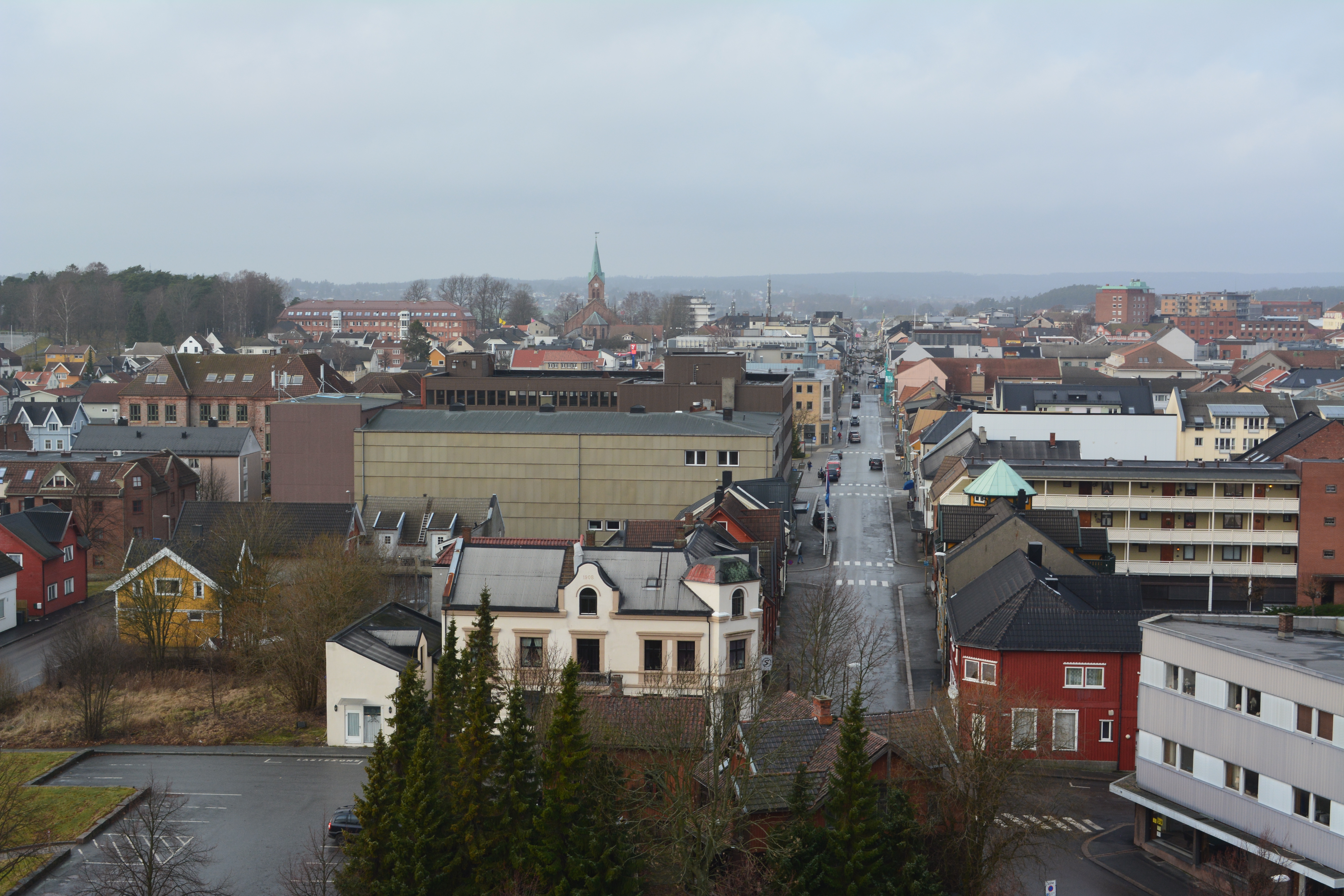 View to the city of Sarpsborg with St. Marie gate from the Tower in Borgarsyssel Museum